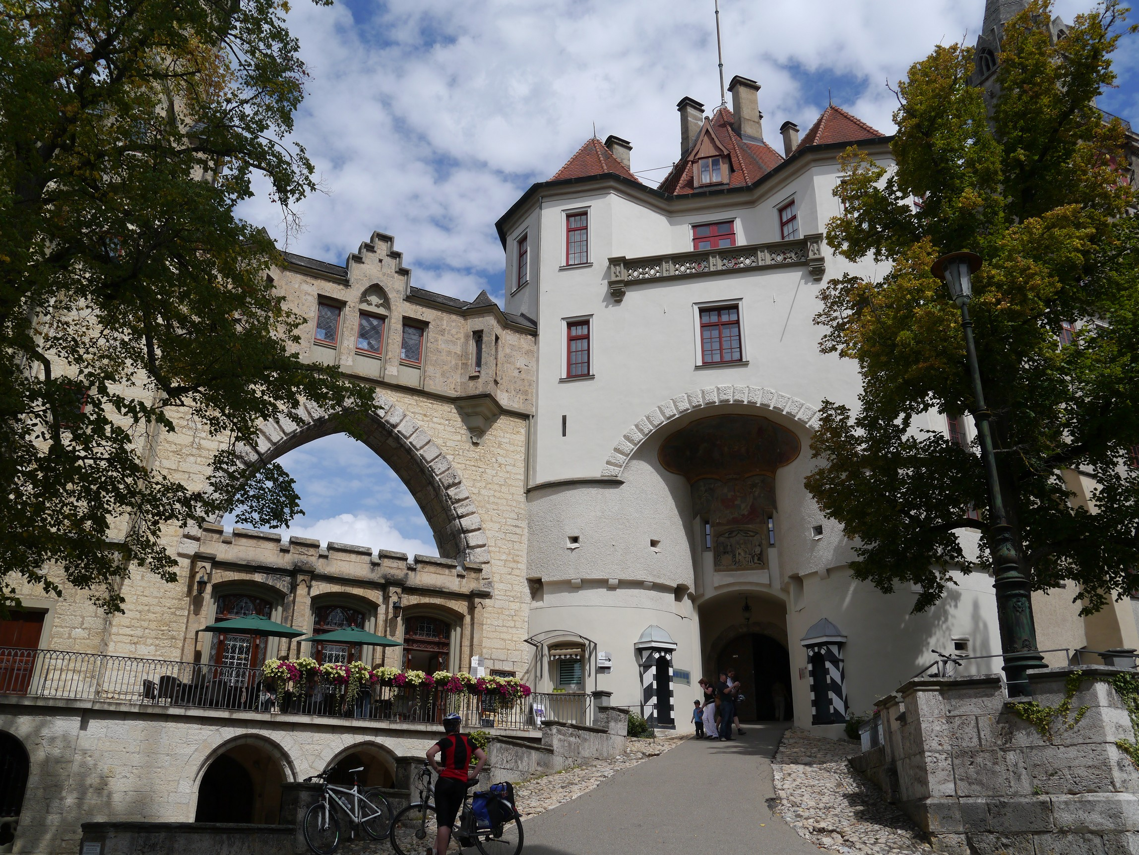 Sigmaringen Castle, Sigmaringen